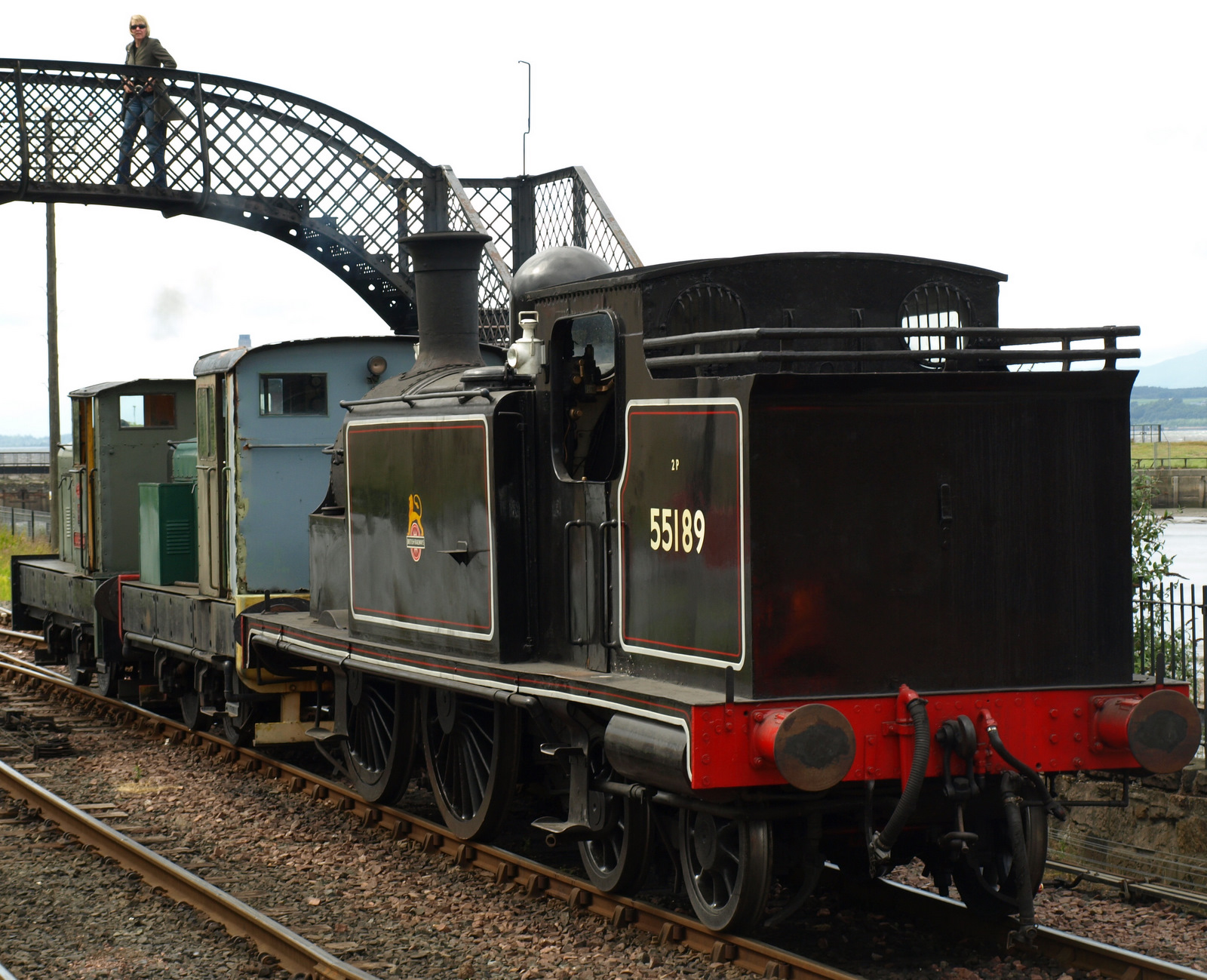 A blonde lady watches as shunting movements are made at Bo'ness station.